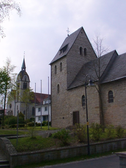 Borchen: old and new parish church St.Walburga in Alfen